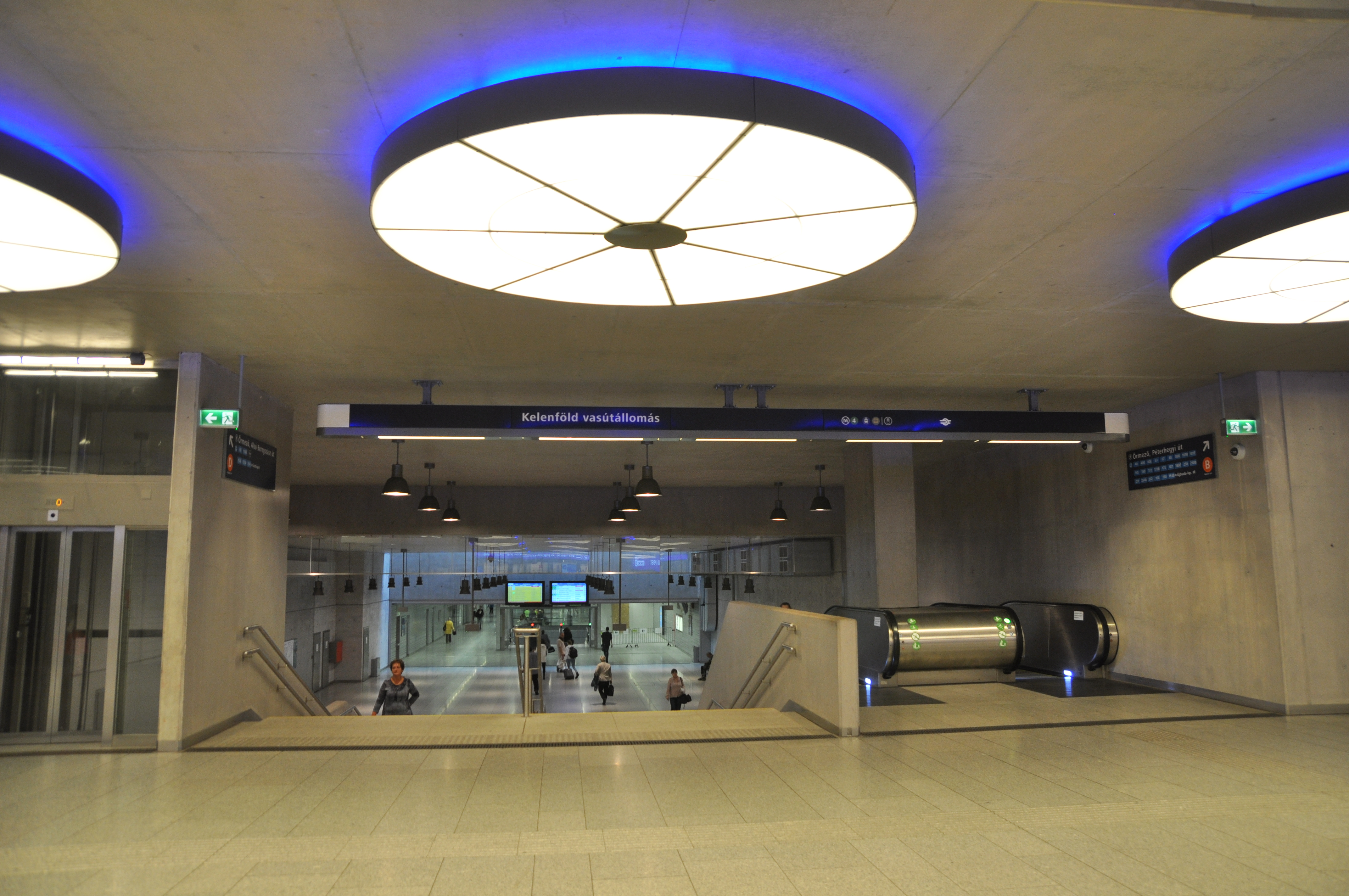 Budapest, metró 4, Kelenföld vasútállomás